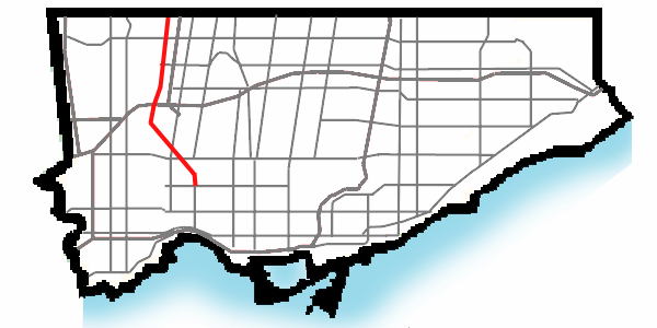 Map of Weston Road in Toronto